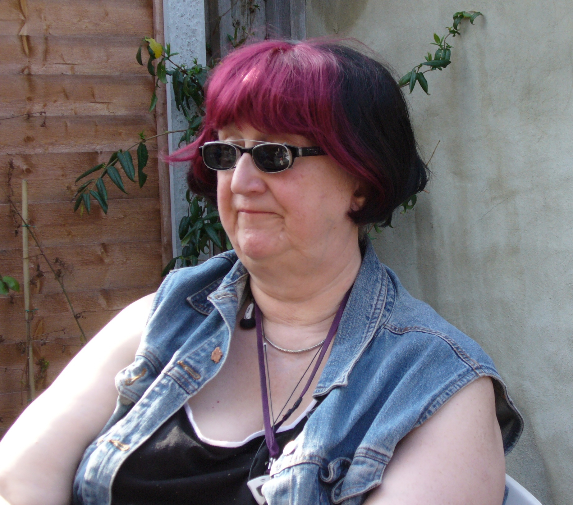 Roz Kaveney at a party, photographed by Patrick Nielsen Hayden